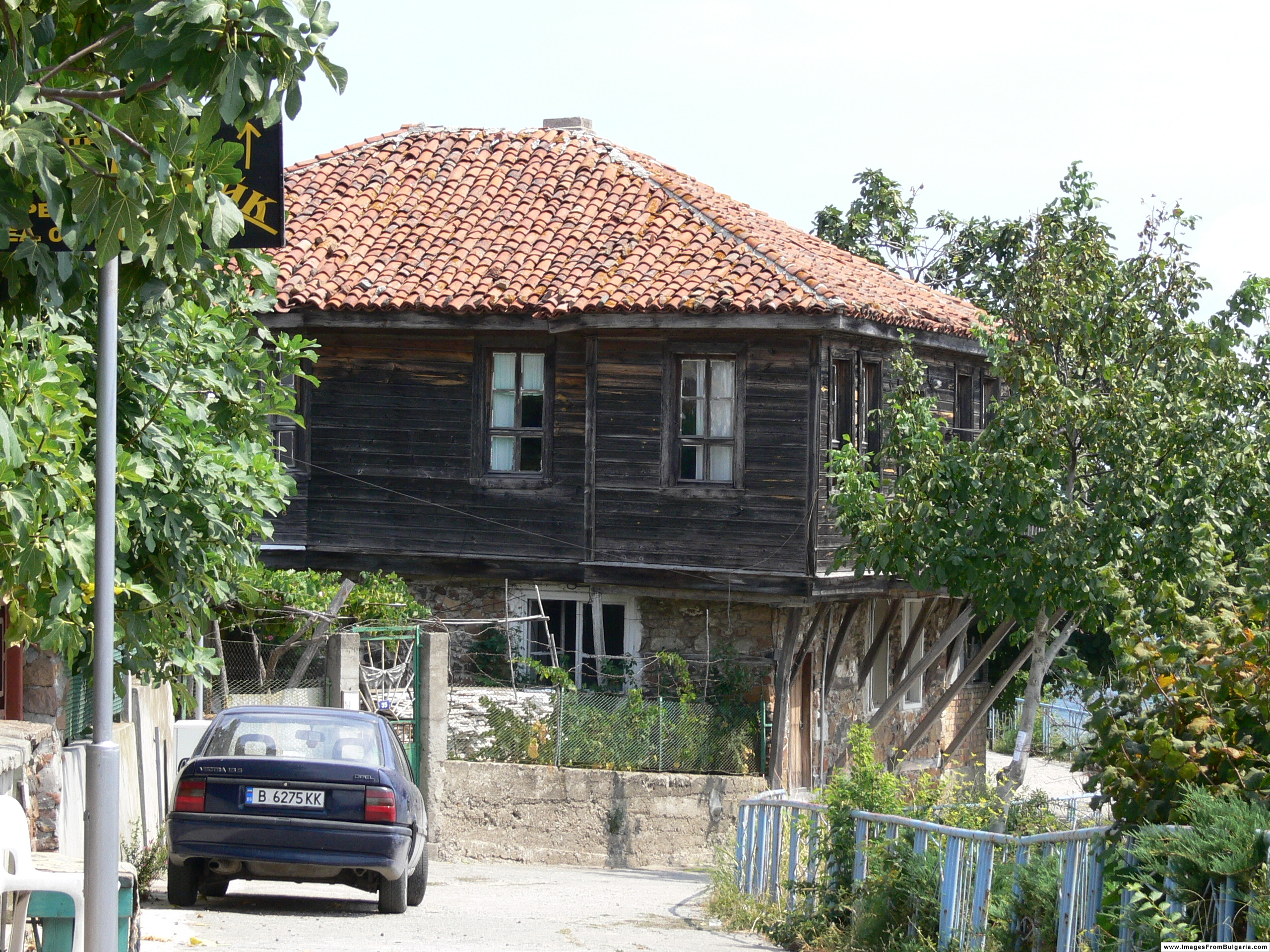 Ahtopol, Bulgaria. Author: Nenko Lazarov. Old wooden house